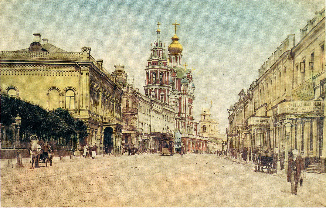 Pokrovka Street